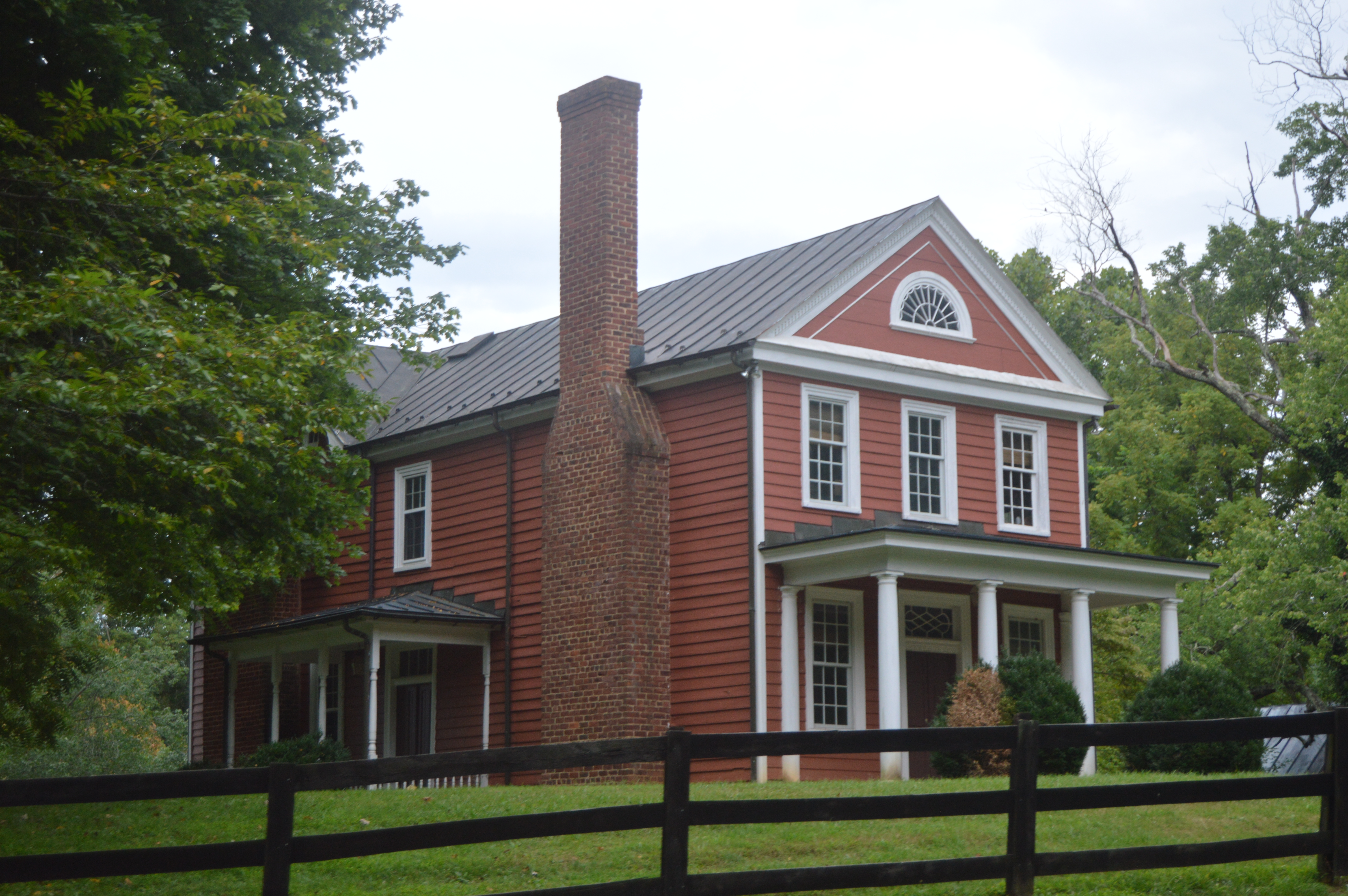 Front and eastern side of the Woodstock Hall Tavern, located on Dick Woods Road east of Taylors Gap Road and west of Charlottesville in Albemarle County, Virginia, United States. Built in 1757, it is listed on the National Register of Historic Places.